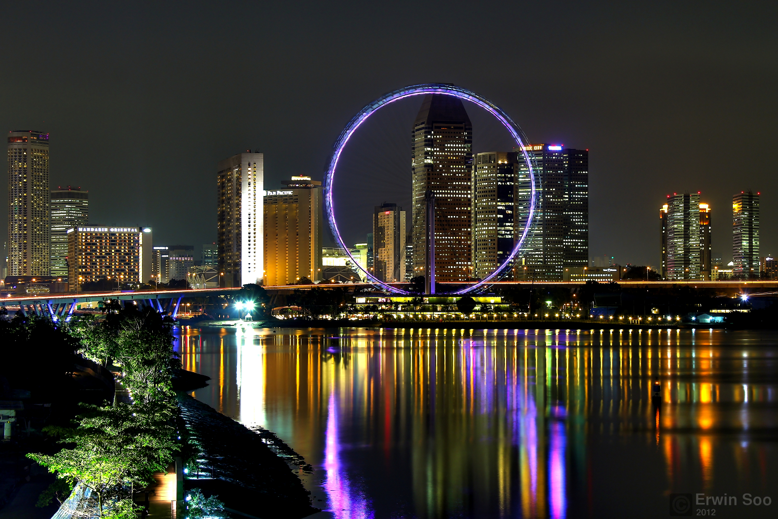 The Flyer from Marina Barrage